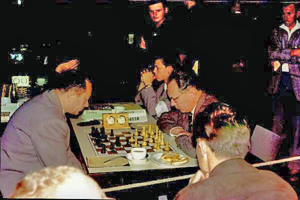 Laszlo Szabo - Michail Botwinnik, European Team Championship, Oberhausen 1961, Photographer Gerhard Hund.